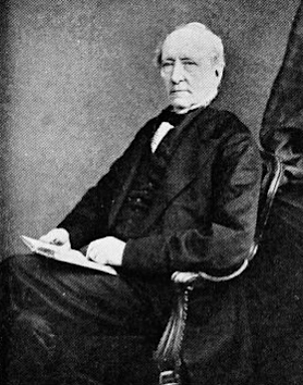 Portrait of London publisher Sampson Low (1797-1886).